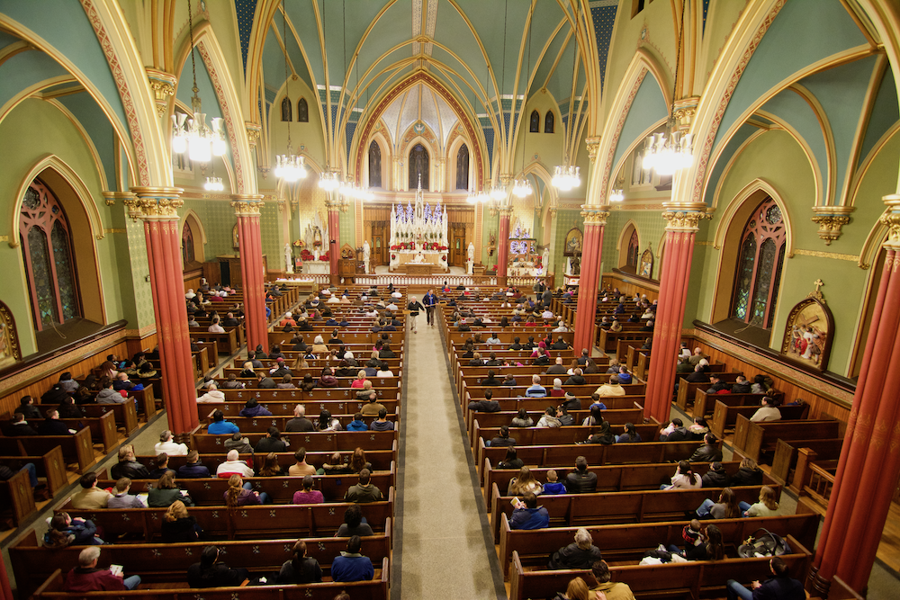 The Basilica of Saint John the Evangelist is the Mother Church of Stamford, Connecticut.